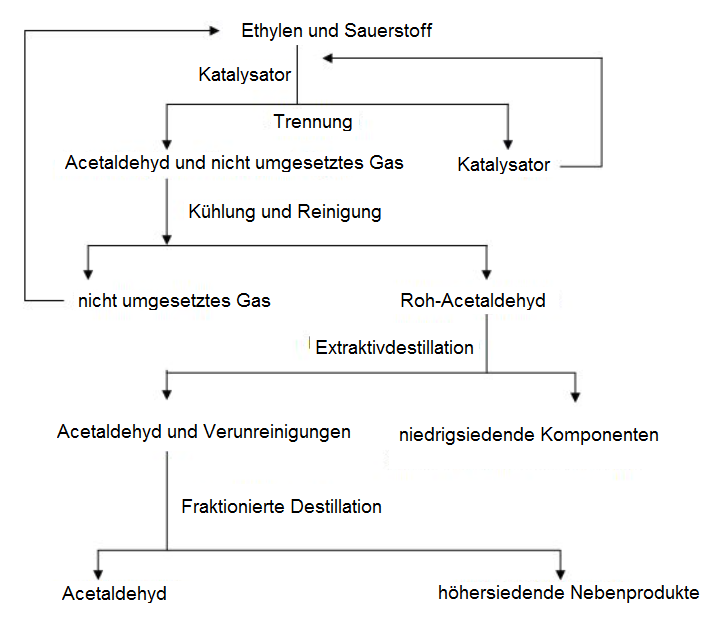 Flow Chart of the Wacker one step process